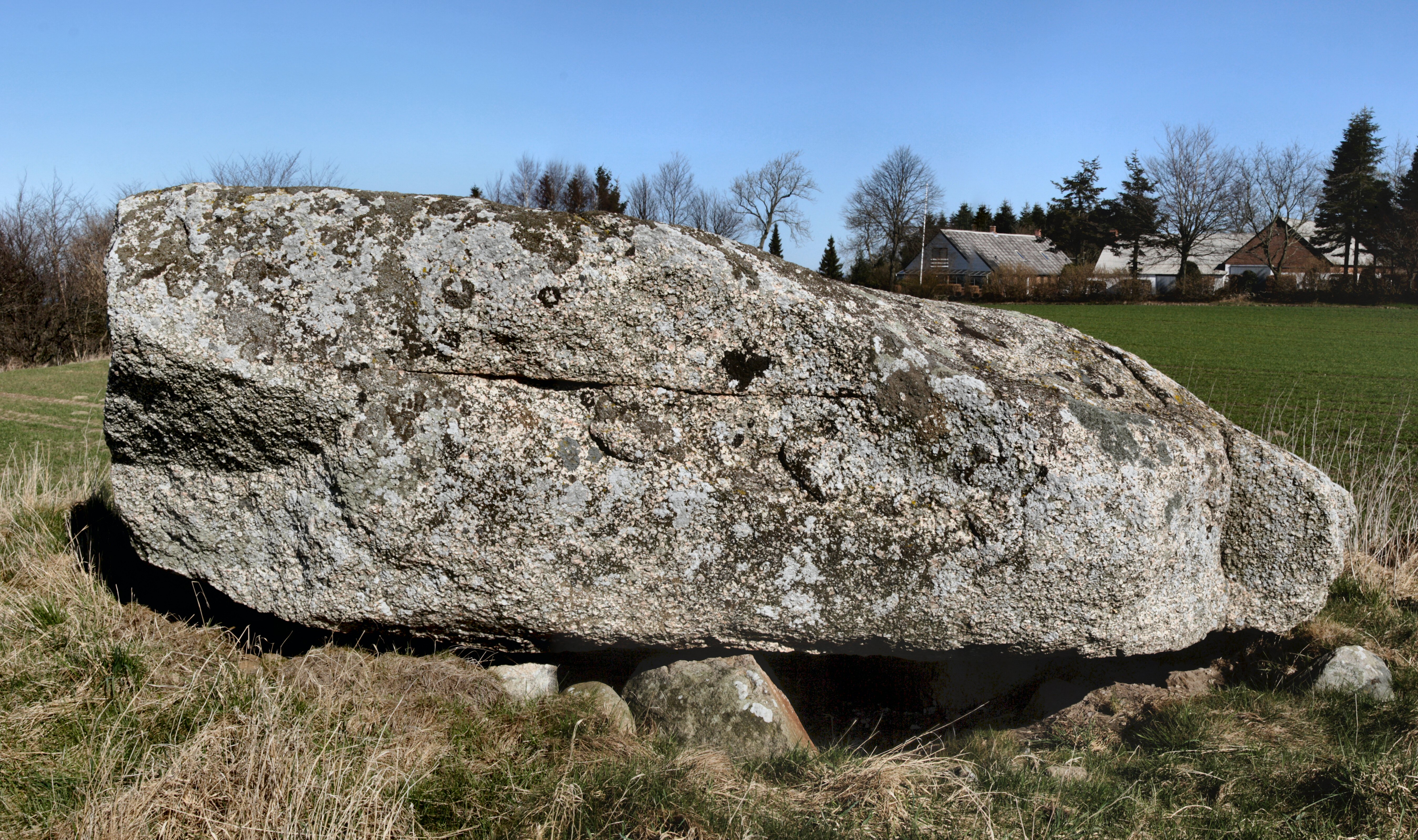 capstone on Agri Dyssen in Denmark